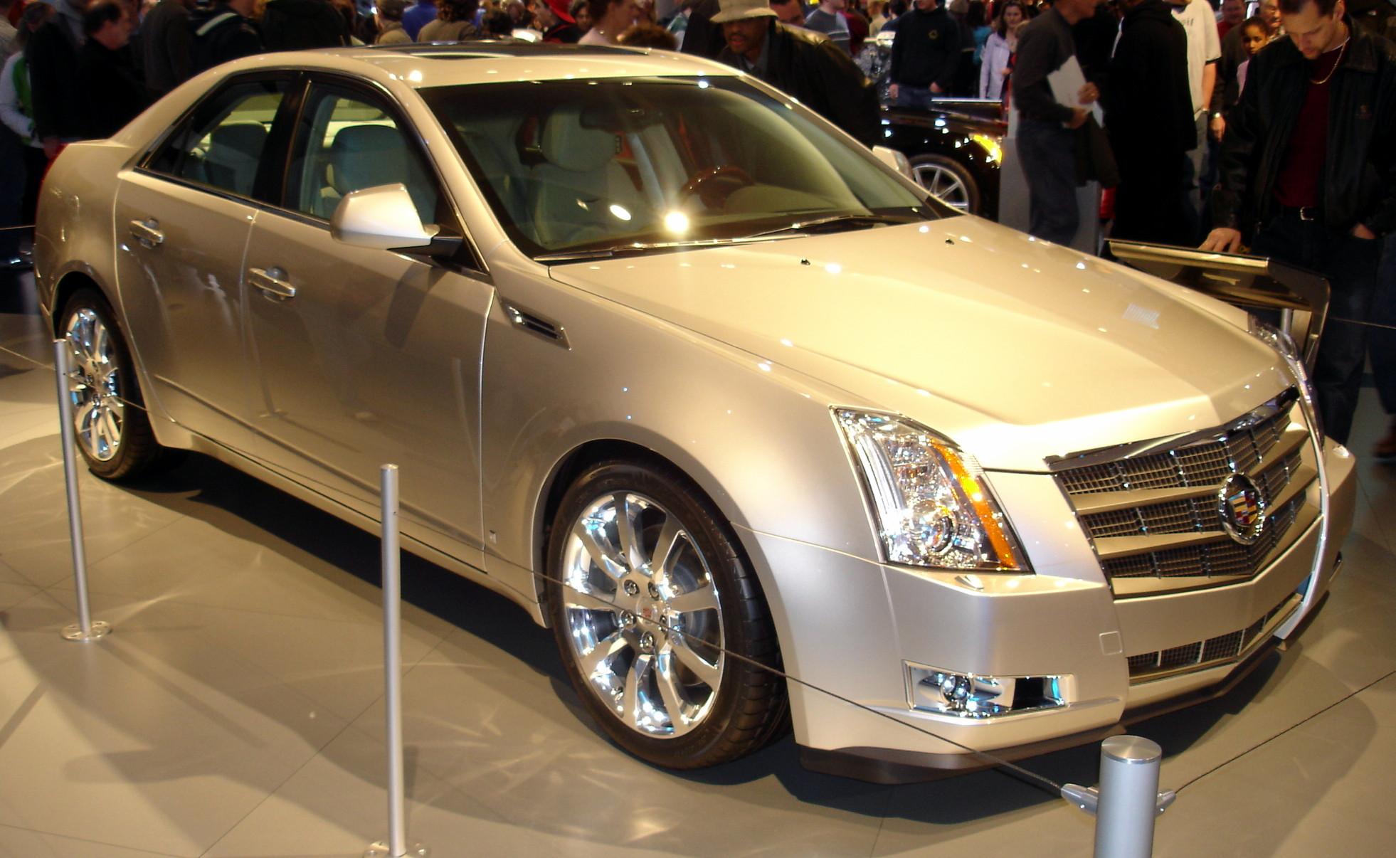 2008 Cadillac CTS (Not yet on sale)